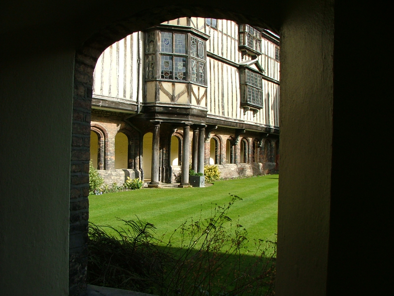 President's Lodge, Queen's College, Cambridge